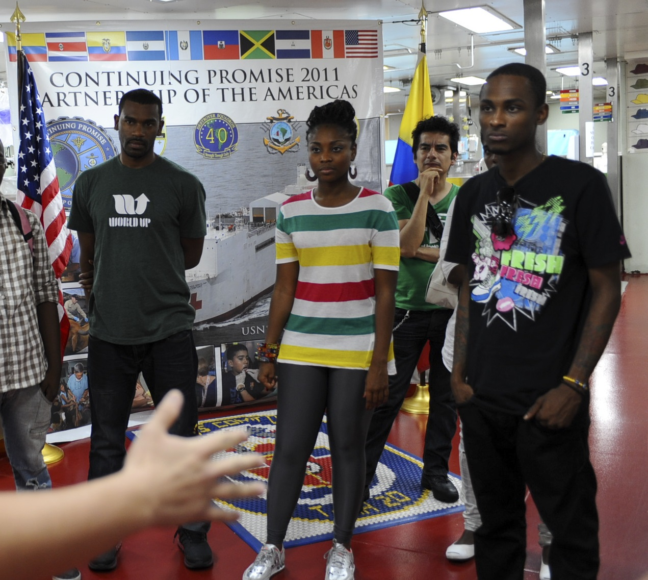 TUMACO, Colombia (June 9, 2011) Hospital Corpsman 3rd Class Brent Snyder, from South Bend, Ind., welcomes hip-hop band Chocquib Town to the Military Sealift Command hospital ship USNS Comfort (T-AH 20) at the beginning of a tour during Continuing Promise 2011. Continuing Promise is a five-month humanitarian assistance mission to the Caribbean, Central and South America. (U.S. Air Force photo by Senior Airman Kasey Close/Released)